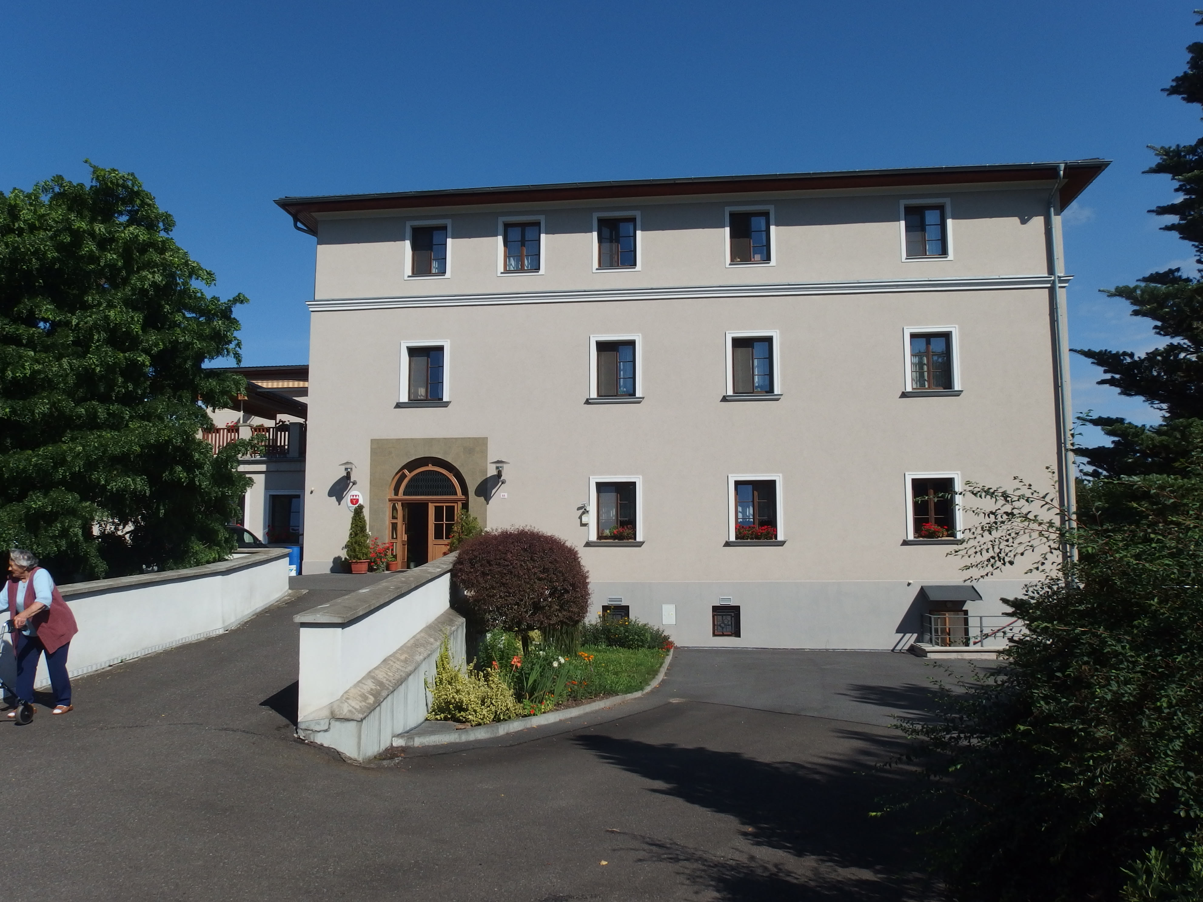 Slavkov, Opava District, Czech Republic. Castle. Now a retirement home.